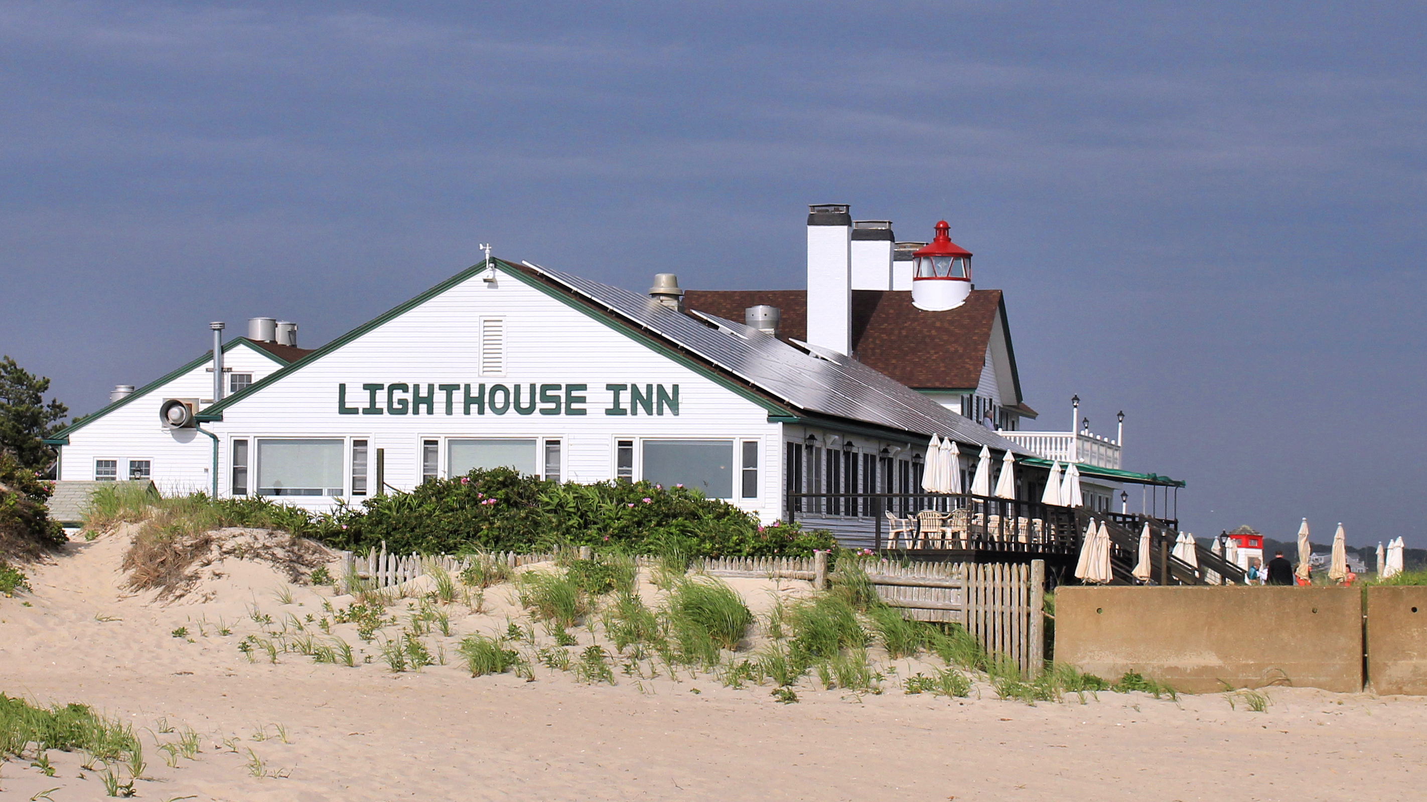 The west elevation of the Lighthouse Inn in West Dennis, Mass. The Inn is an addition to the West Dennis Light.